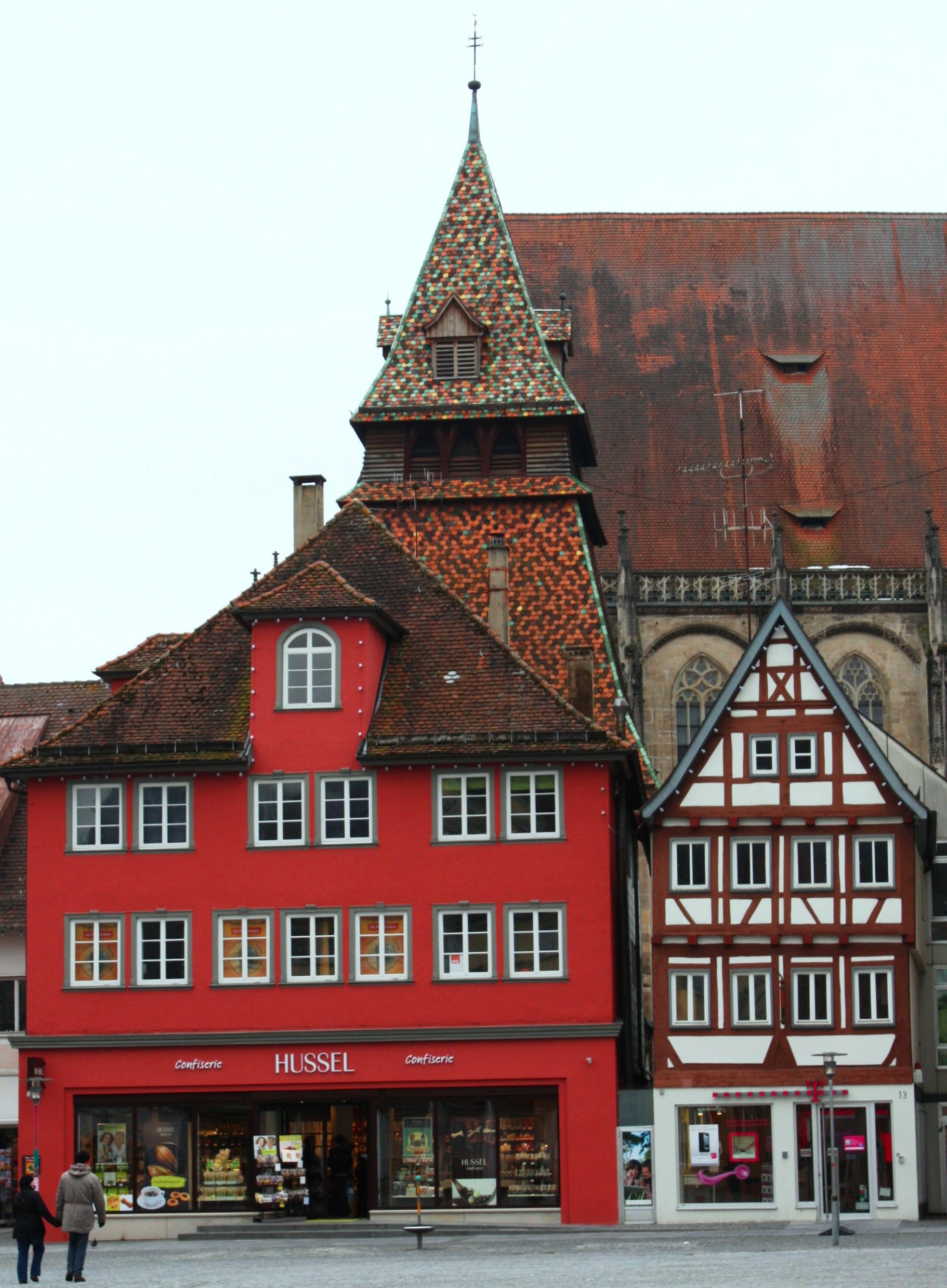 Bocksgasse 11 (left) and 13 (right), in the background Glockenturm and Minster of Schwaebisch Gmuend